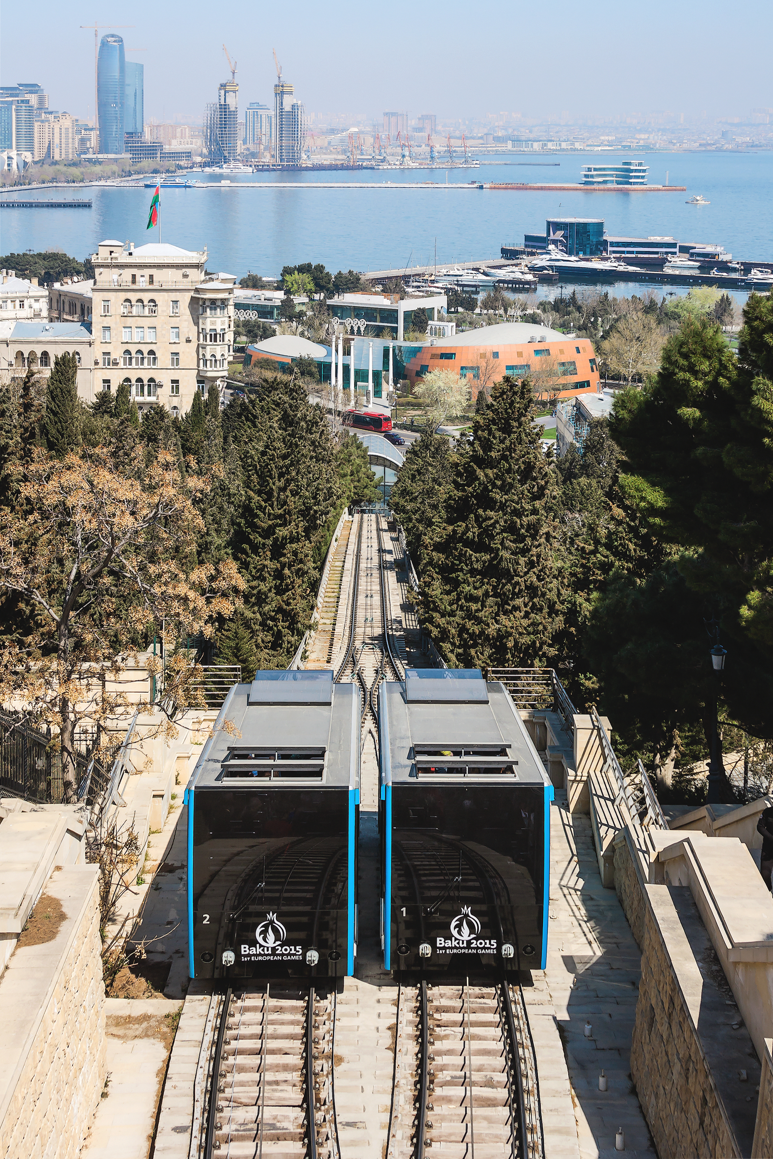 Wagons of the funicular on the road. Baku, Azerbaijan